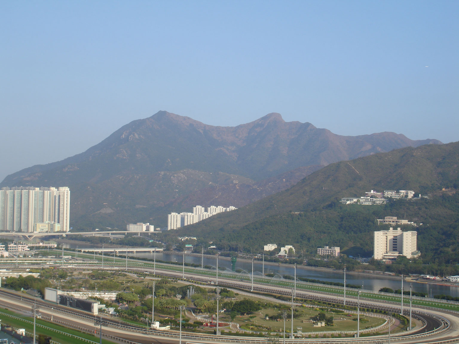 View of Ma On Shan, overlooking the Sha Tin Racecourse